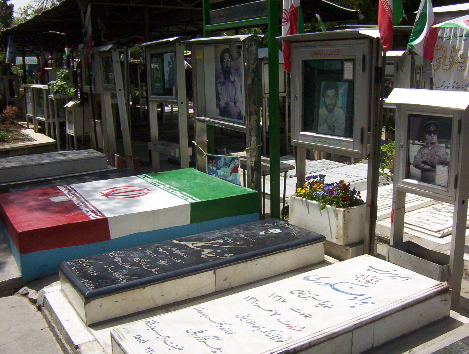 Javad Fakoori and Mostafa Chamran tombs at the Behesht-e Zahra